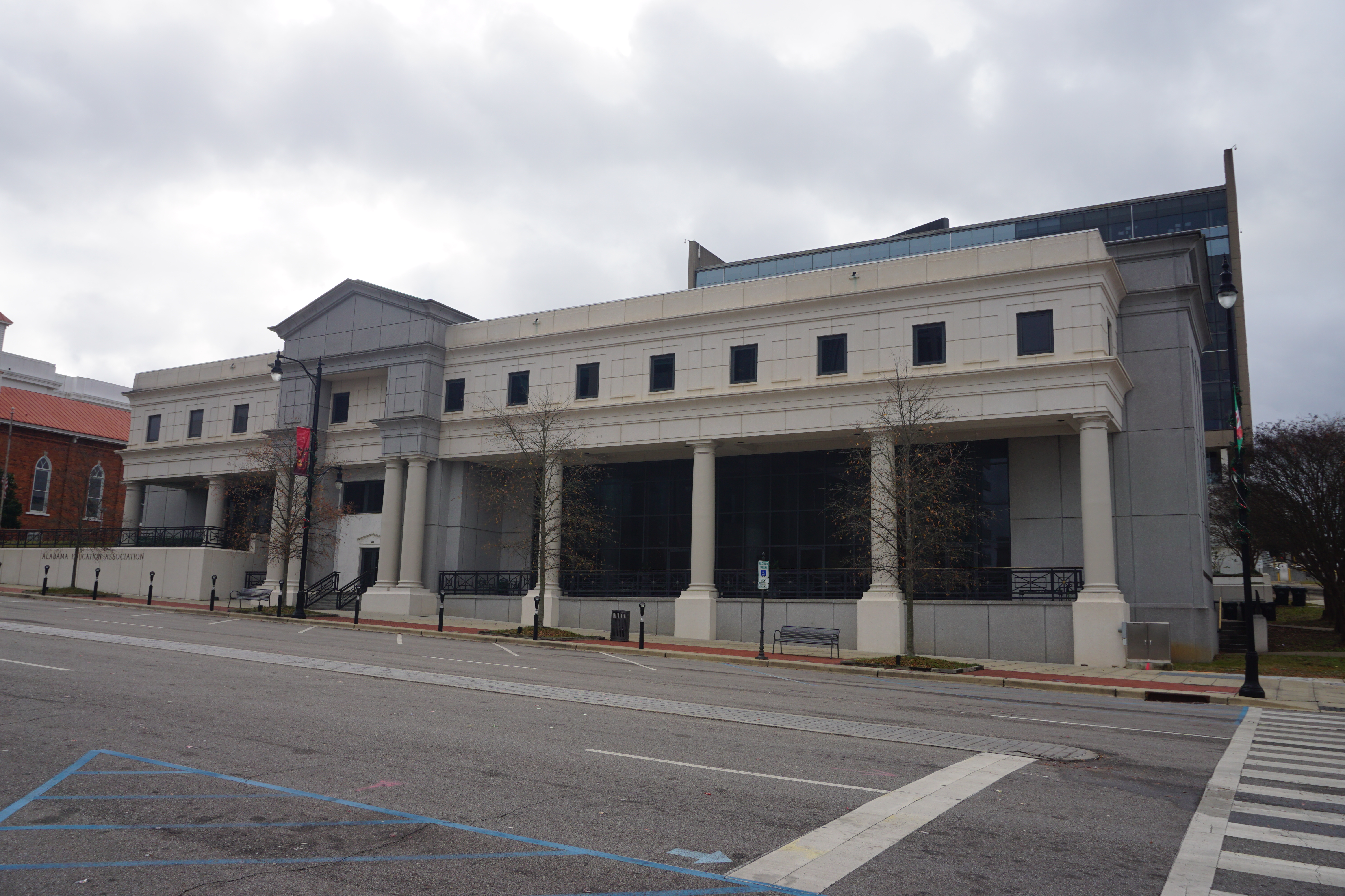 The Alabama Education Association building in Montgomery, Alabama (United States).